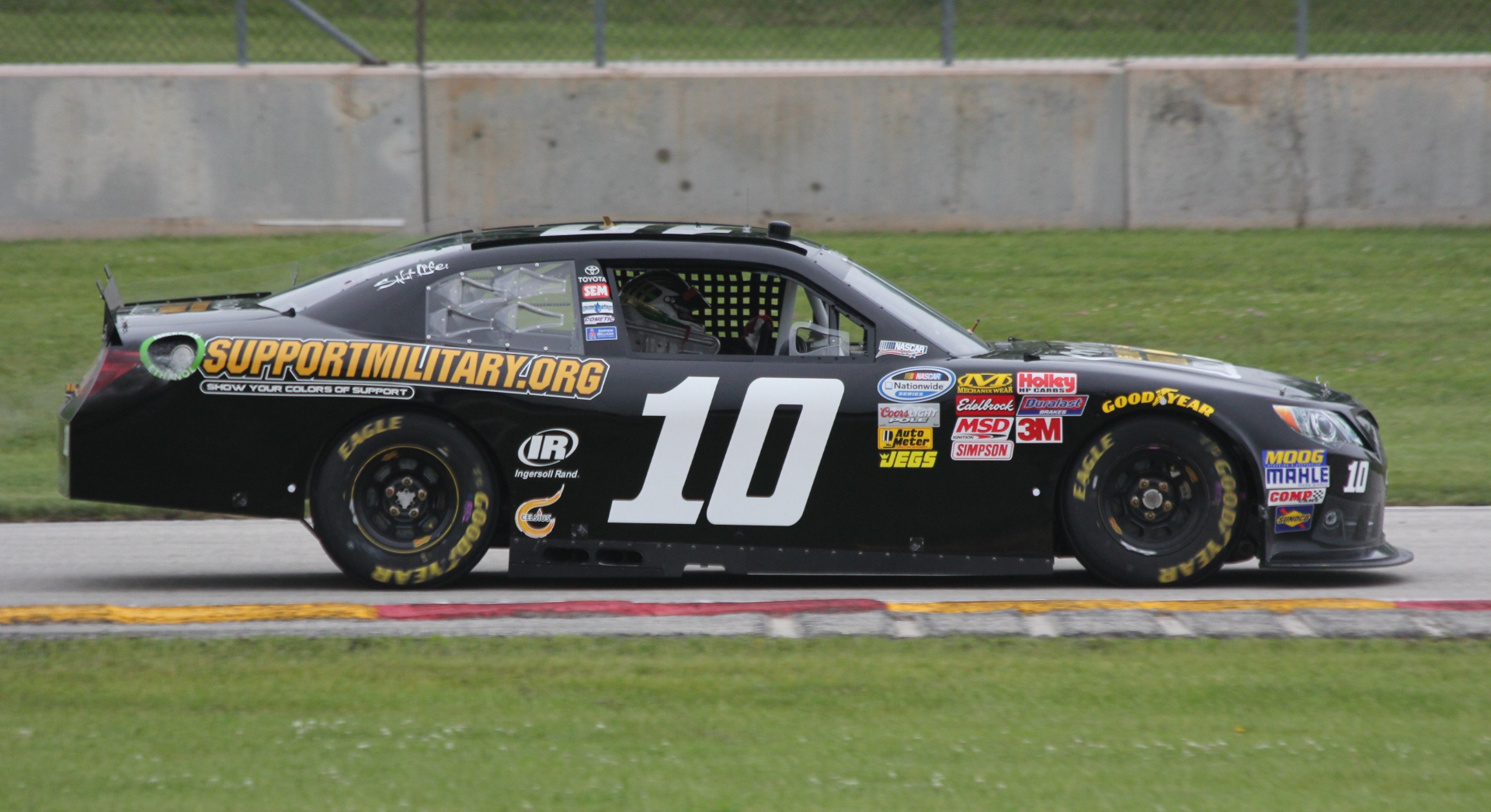 The passenger side of Landon Cassill during the 2014 Gardner Denver 200 at Road America. Taken racing in turn 13.